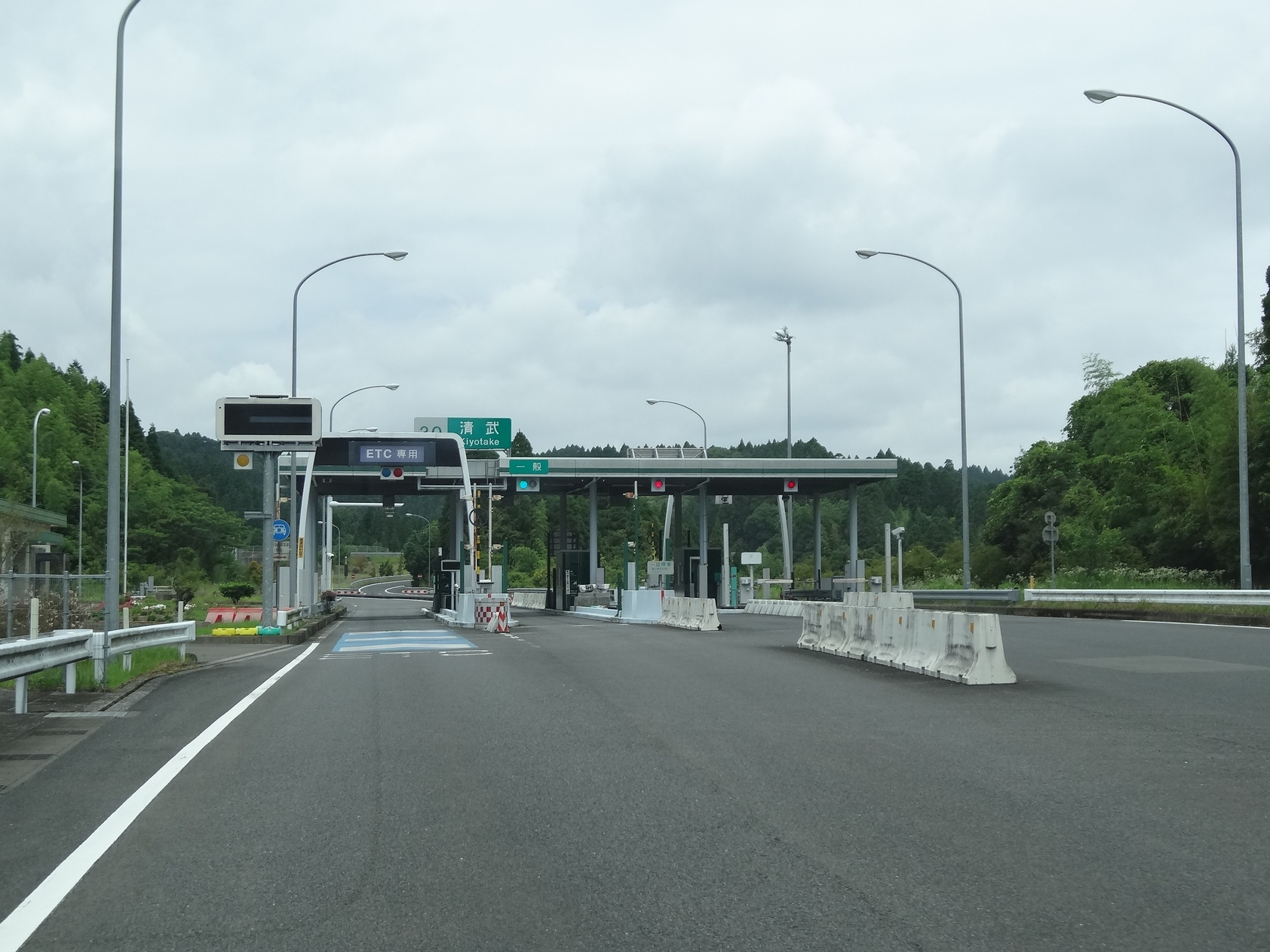 The Toll Plaza at Kiyotake Interchange of Higashi-Kyushu Expressway in Kiyotake, Miyazaki City, Miyazaki Prefecture, Japan.